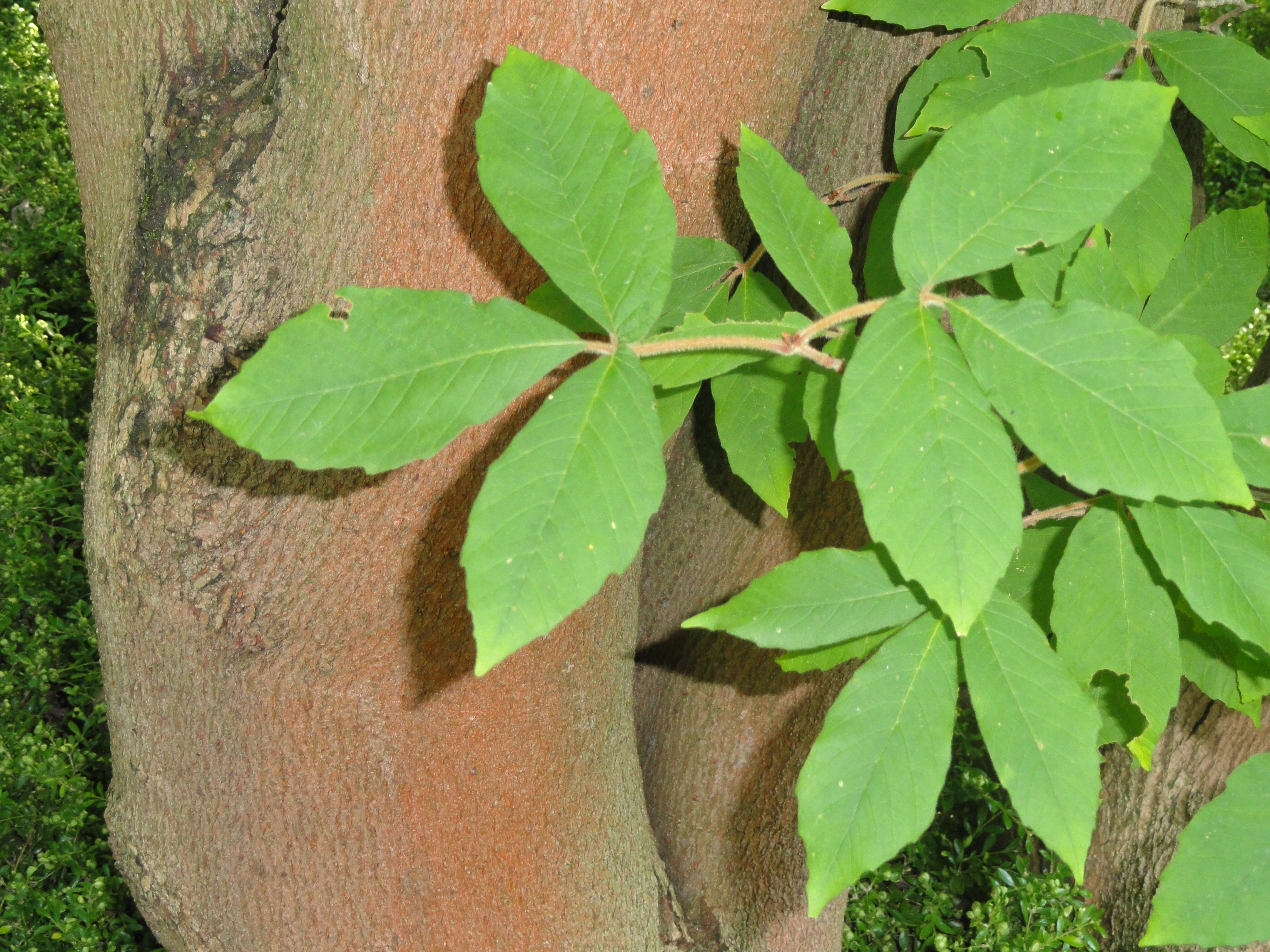 Botanical specimen in the Botanischer Garten, Frankfurt am Main, Germany.